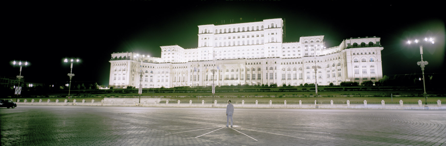 per huttner photograph 240 x 80 cm, Rebirth (Bucharest), 2006, Framed Colour Photograph Mounted on Dibond